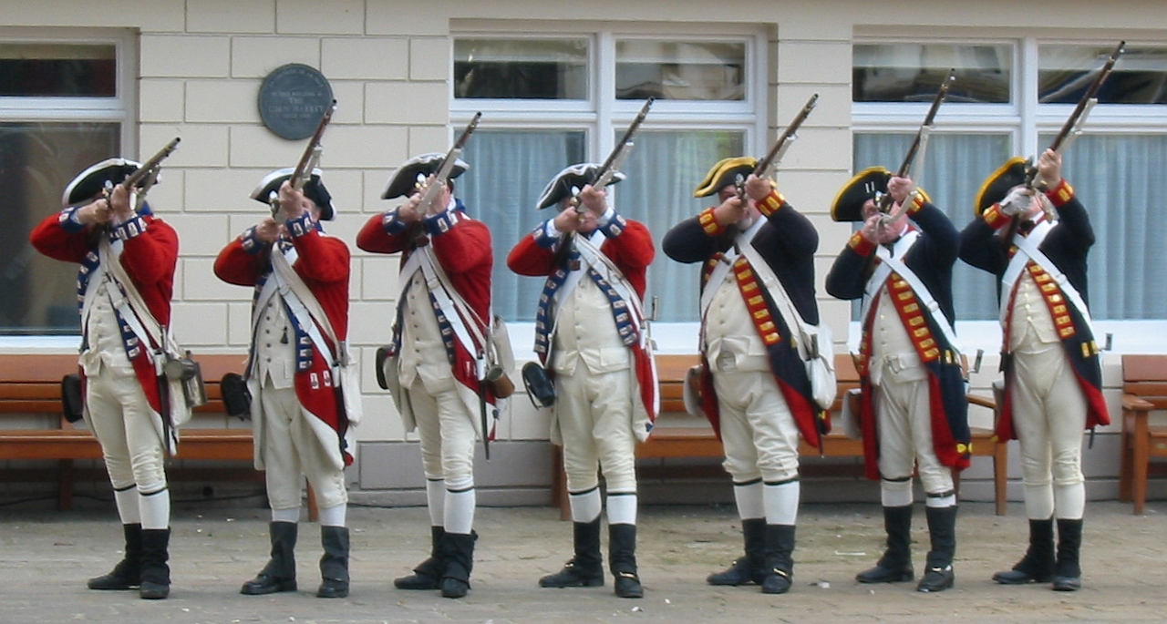 1781 Jersey Militia re-enactment in the Royal Square, Jersey, for the 228th anniversary of the Battle of Jersey